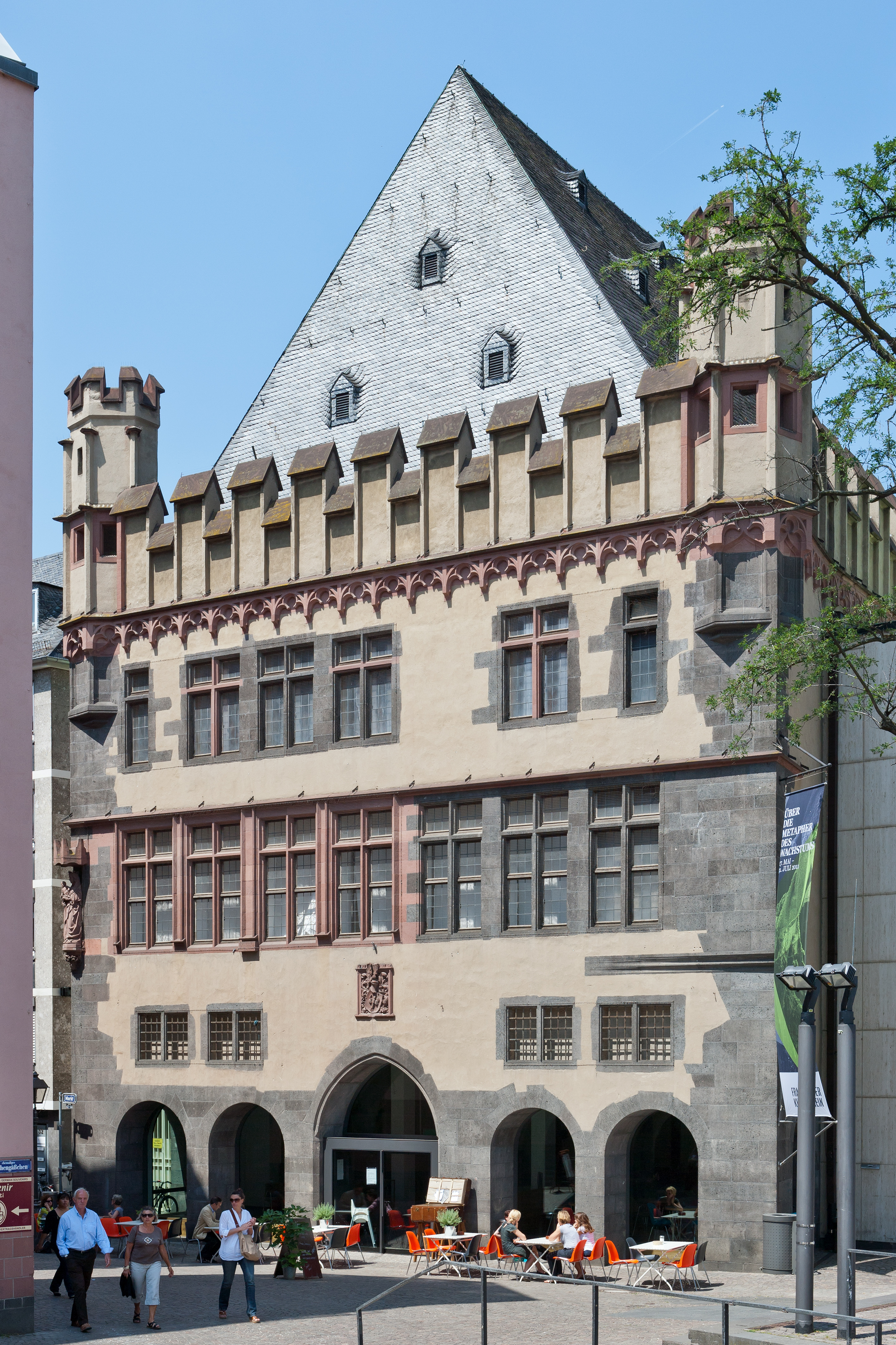 Frankfurt on the Main: Steinernes Haus (Stone House) as seen from the southeast